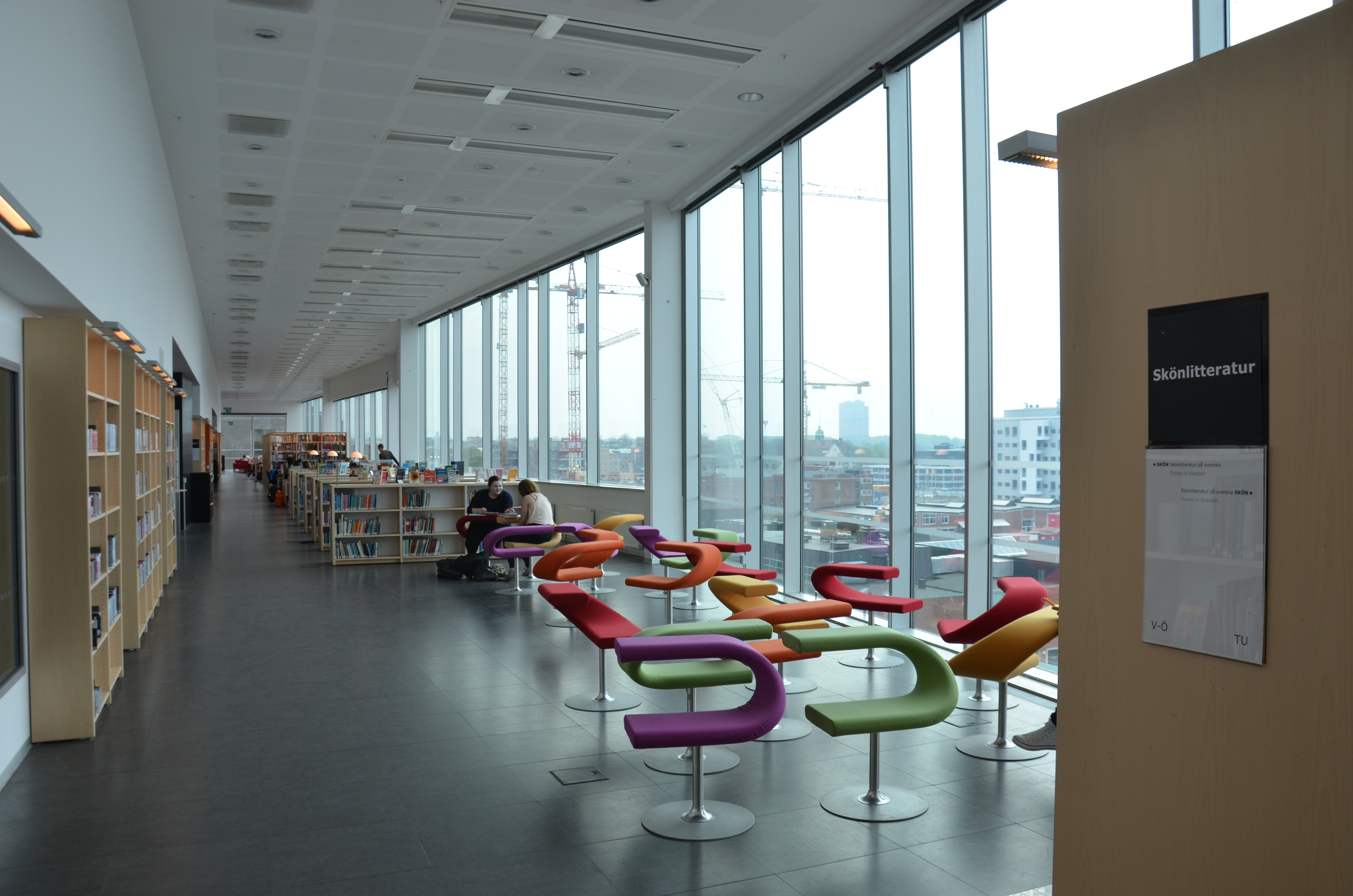 Malmö högskolas bibliotek, sydsidan